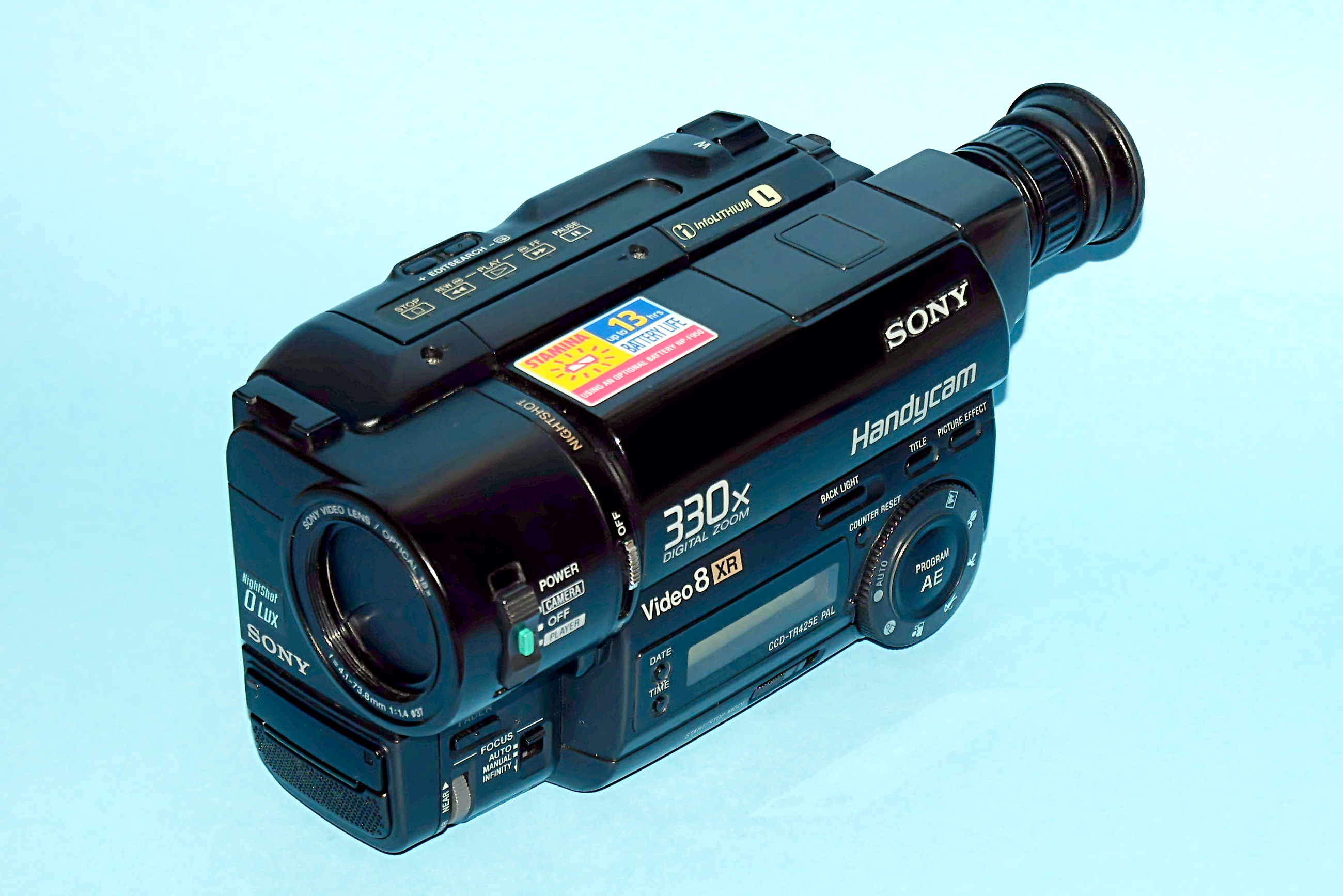 Sony Video 8 CCD-TR425E PAL camcorder. Analog recording device for home videos.